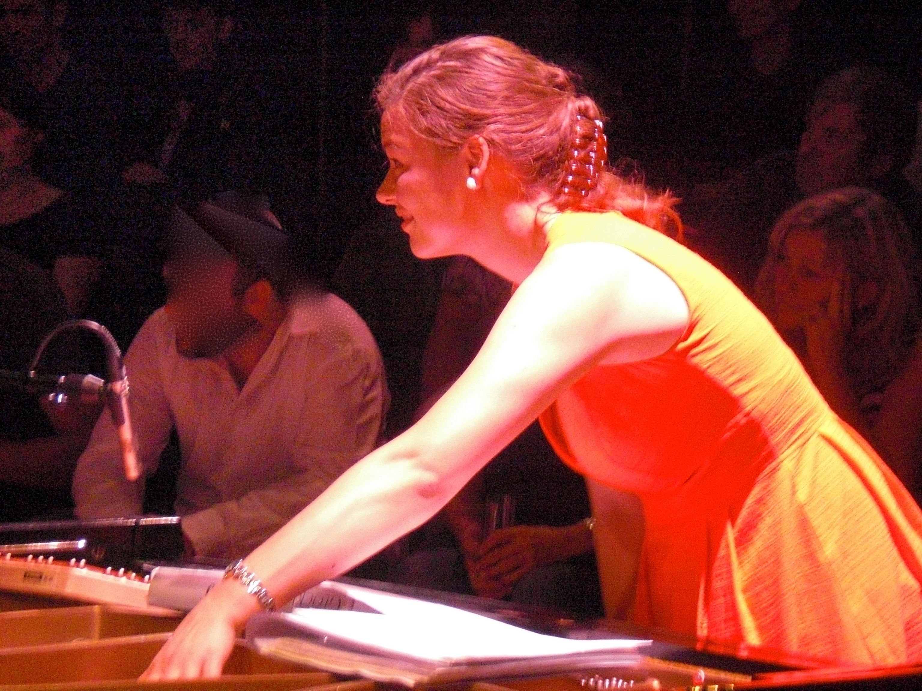 Laia Genc within the concert of ‚Plots‘ at Koelner Musiknacht, Cologne, Germany, September 10th, 2011